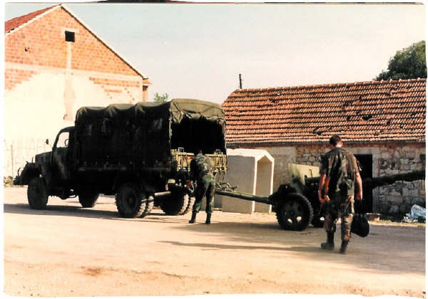 The Serb cannon and truck captured in Siritovci by the Croatian Army.